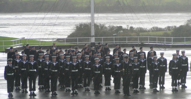 Passing out parade on H.M.S. Raleigh( a wet day) Everyone waiting for the signal start the Passing out parade